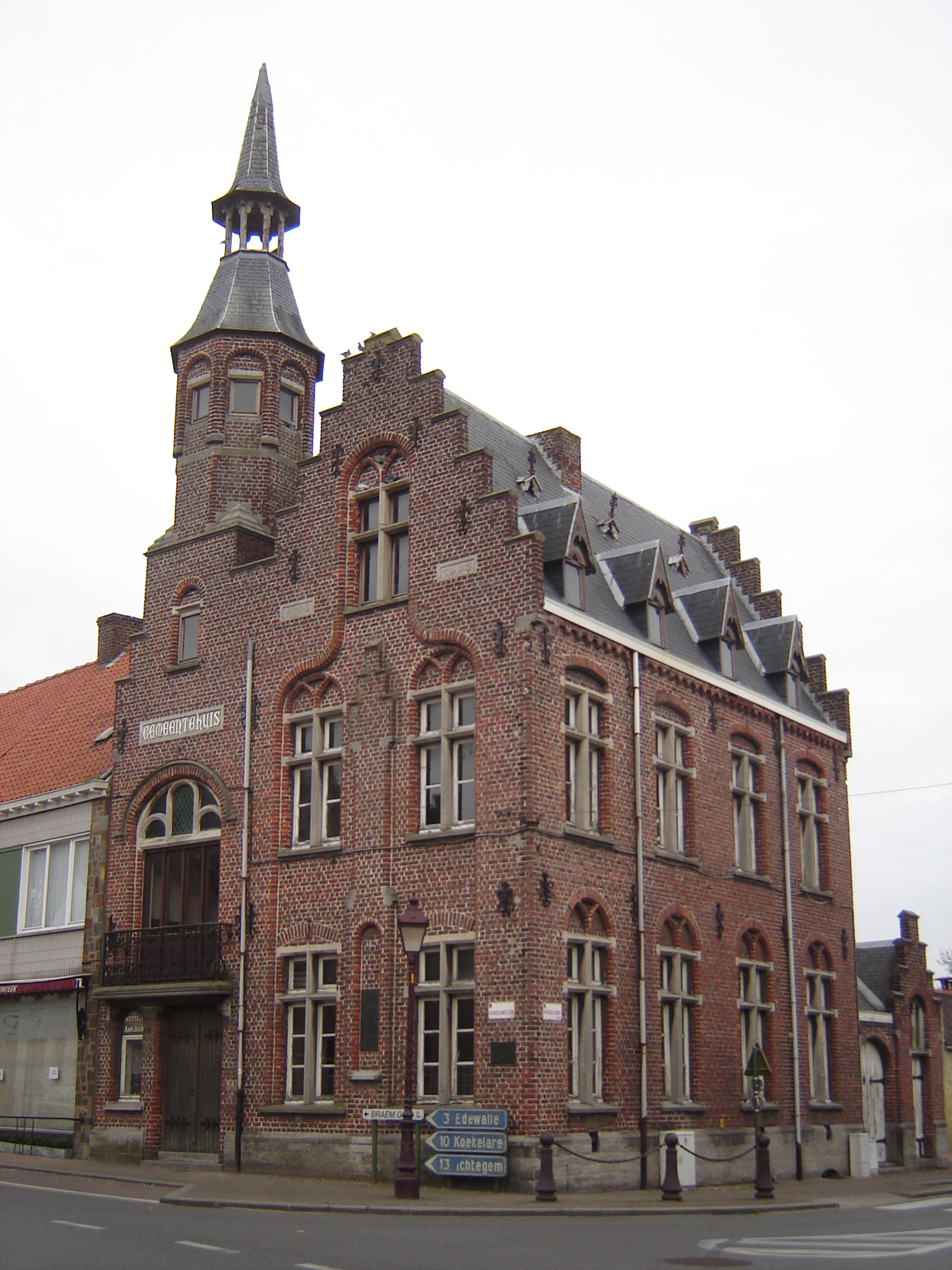 Former town hall in Handzame. Handzame, Kortemark, West Flanders, Belgium